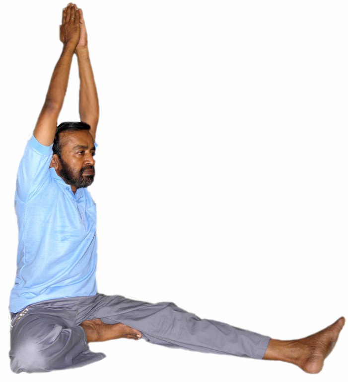 Head-to-Knee Forward Bend